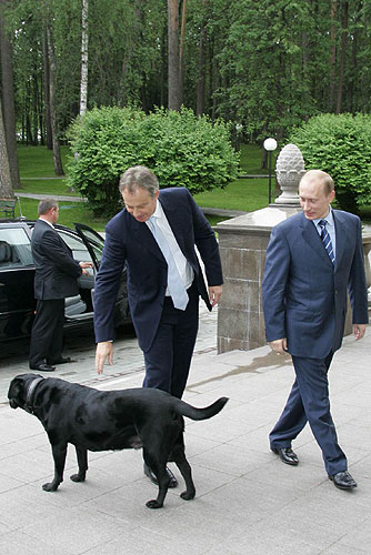 NOVO-OGARYOVO. Anthony Blair arriving at the President of Russia's residence.